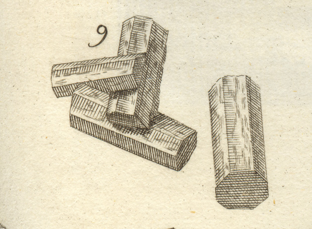 Aragonite woodcut in Torrubia, J. (1754). Aparato para la Historia Natural Española. Imprenta de los Herederos de Agustín de Gordejuela y Sierra, Madrid.